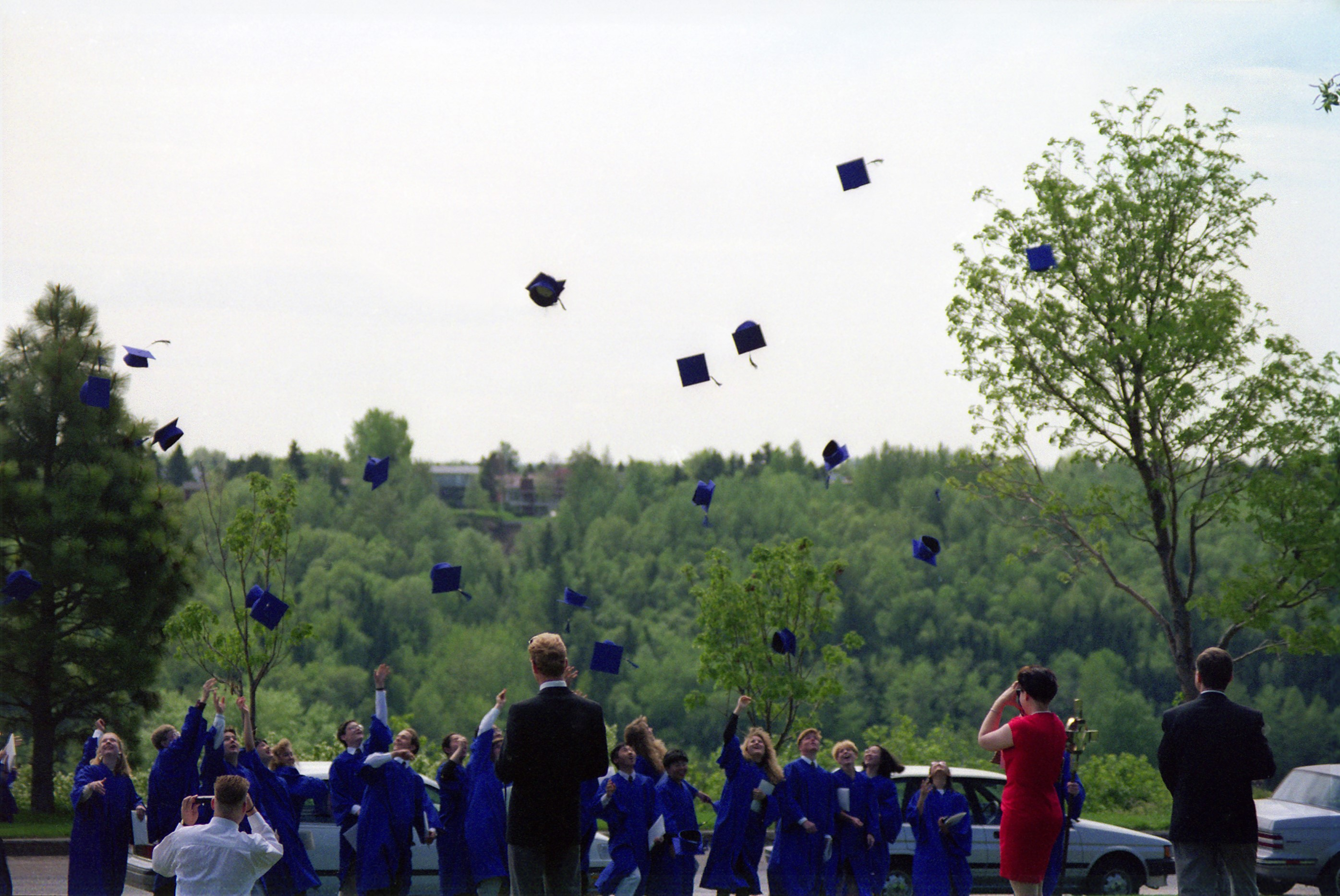 Cap tossing at graduation ceremonies for Concordia High School, Edmonton, Alberta, Canada